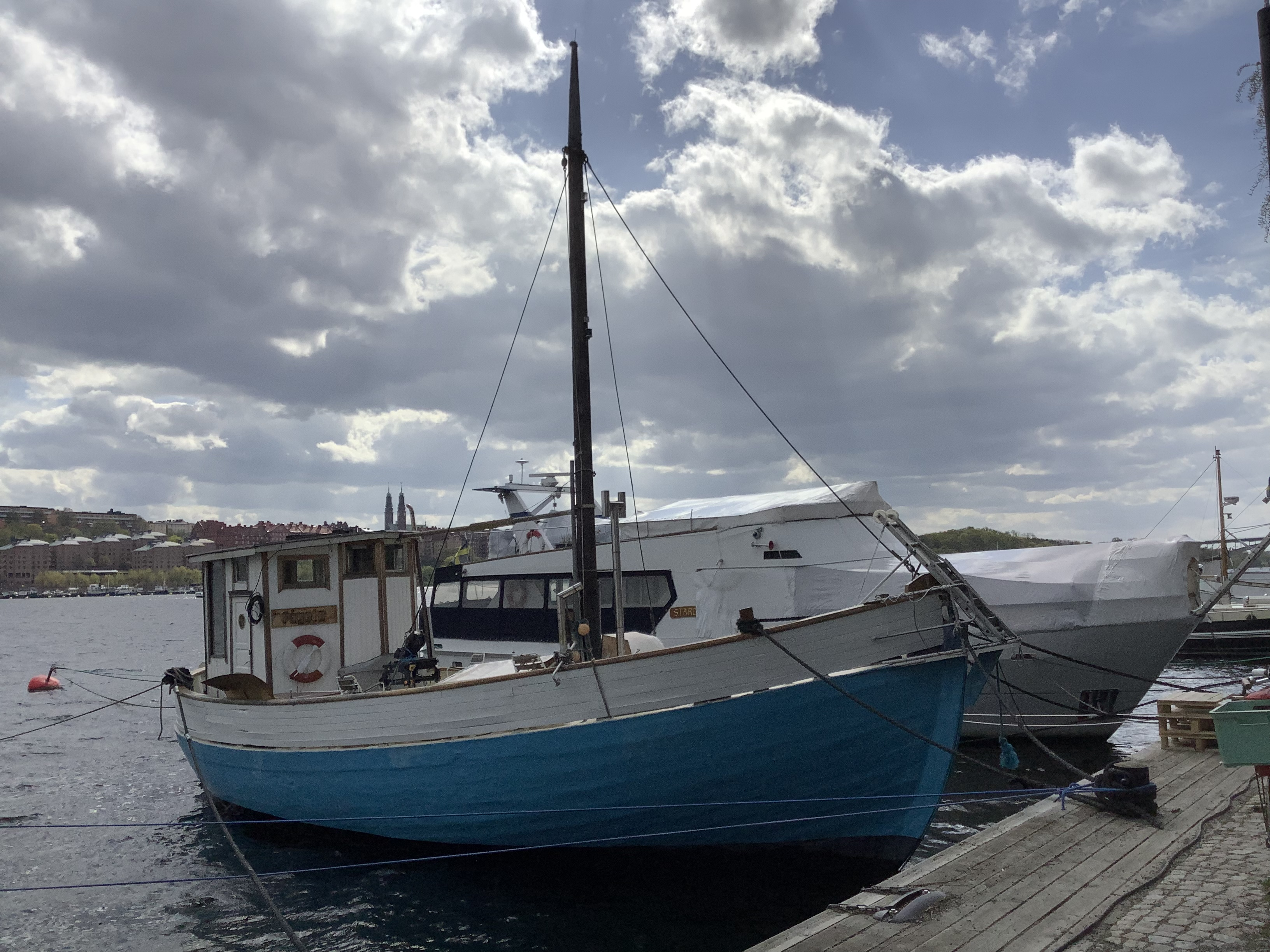 Fågeln ("The Bird"), fishing trawler from 1908 built by Ringens shipyard in Marstrand.